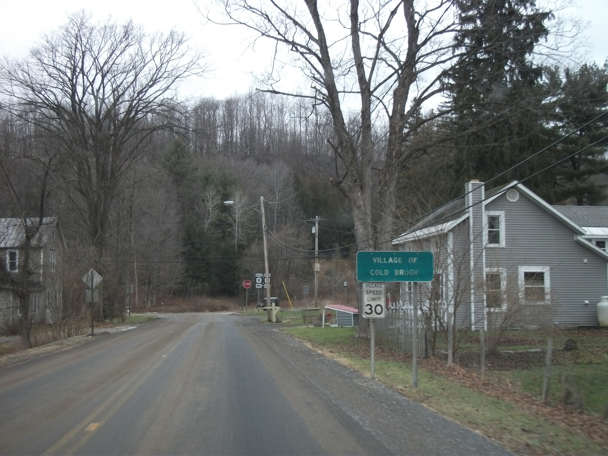 A sign along Herkimer County Route 224 entering the village of Cold Brook, New York.